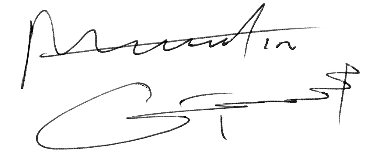 signature of Martin Gould